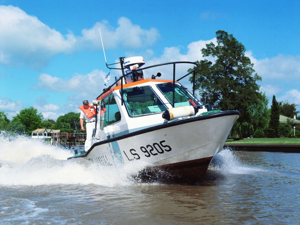 Photo of a PNA Argentine ship.